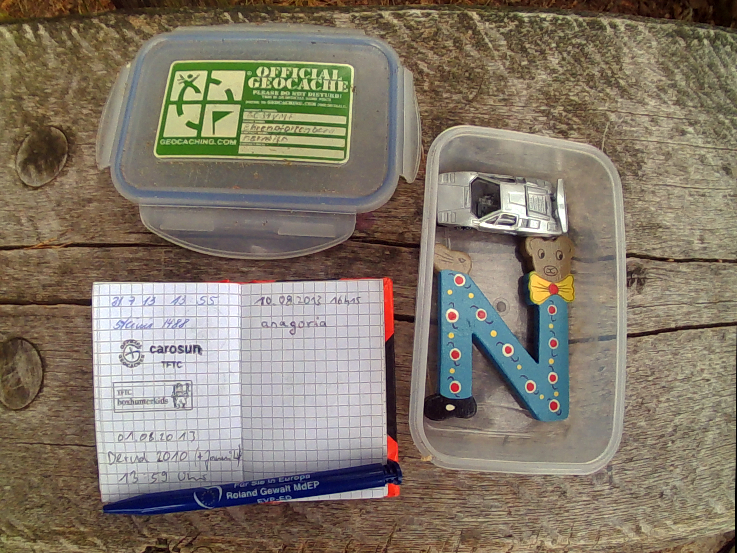 Geocache "Ehrenpfortenberg", Berlin, Germany; The Ehrenpfortenberg is - with 69 meters - the highest "mountain" of the district of Reinickendorf in Berlin